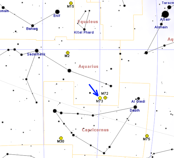 Map of M73